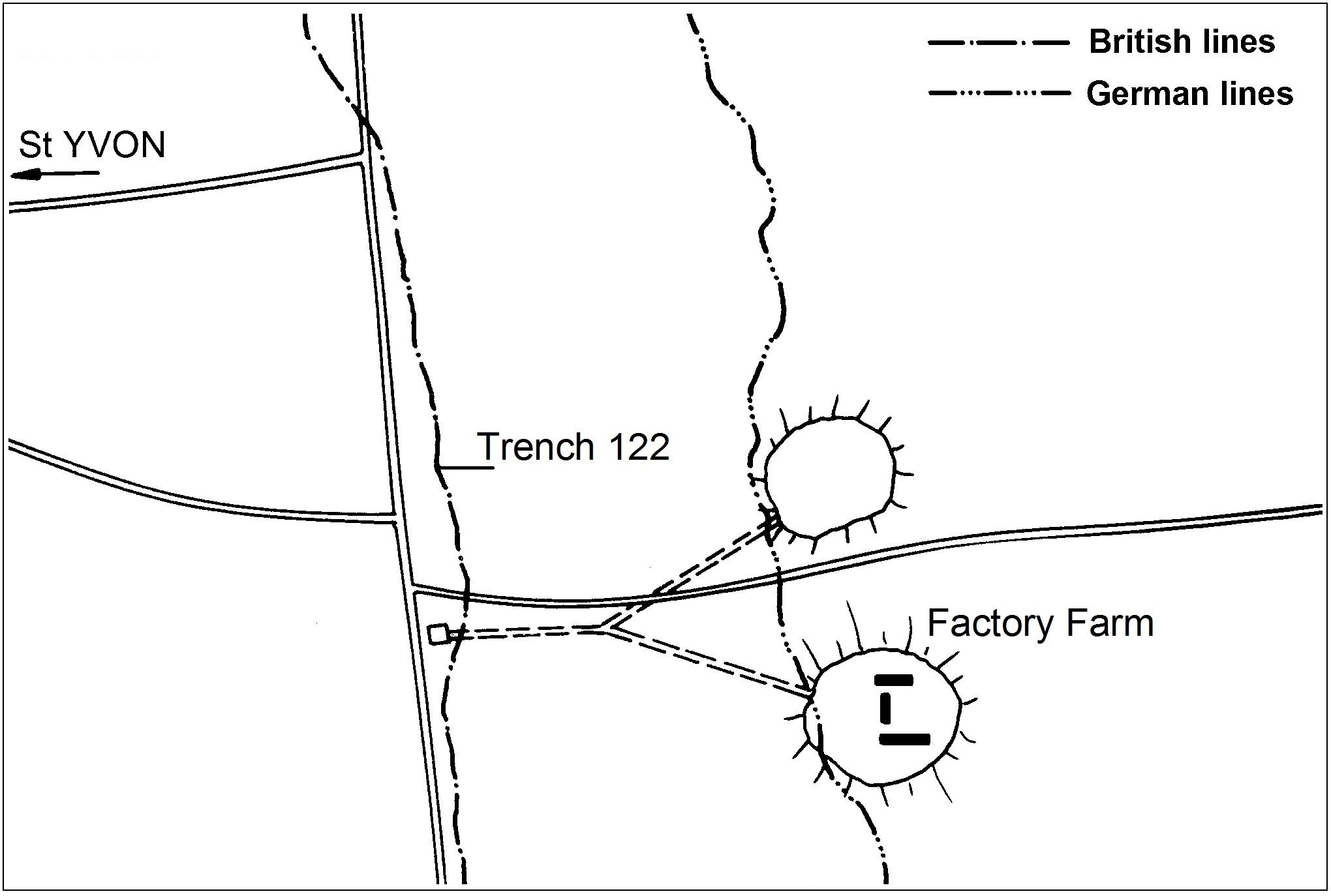 Plan of the mines placed from Trench 122, part of the mines placed by the tunnelling companies of the Royal Engineers in the Battle of Messines (1917). This drawing is based on the plans published in Roger Lampaert, De Mijnenoorlog in Vlaanderen 1914–1918, Roesbrugge/Belgium (Drukkerij Schoonaert) 1989.